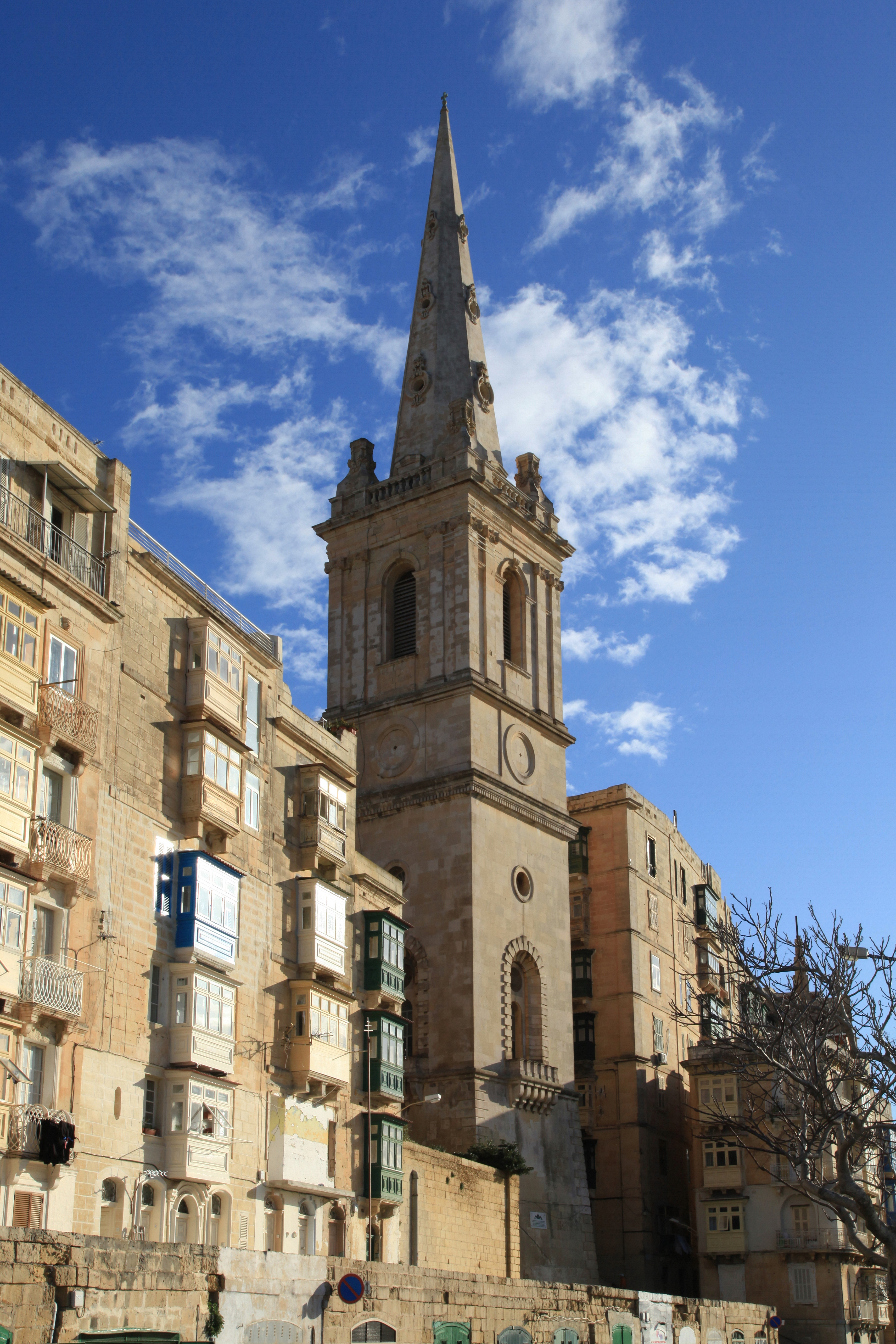 St Paul's Pro-Cathedral at Triq Marsamxett in Valletta, Malta